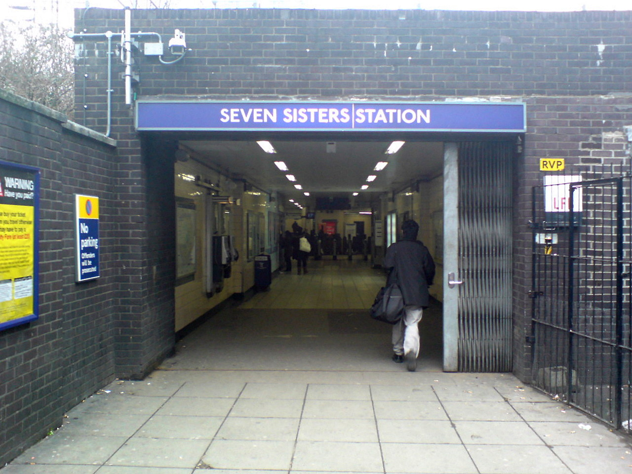 Seven Sisters station north of London